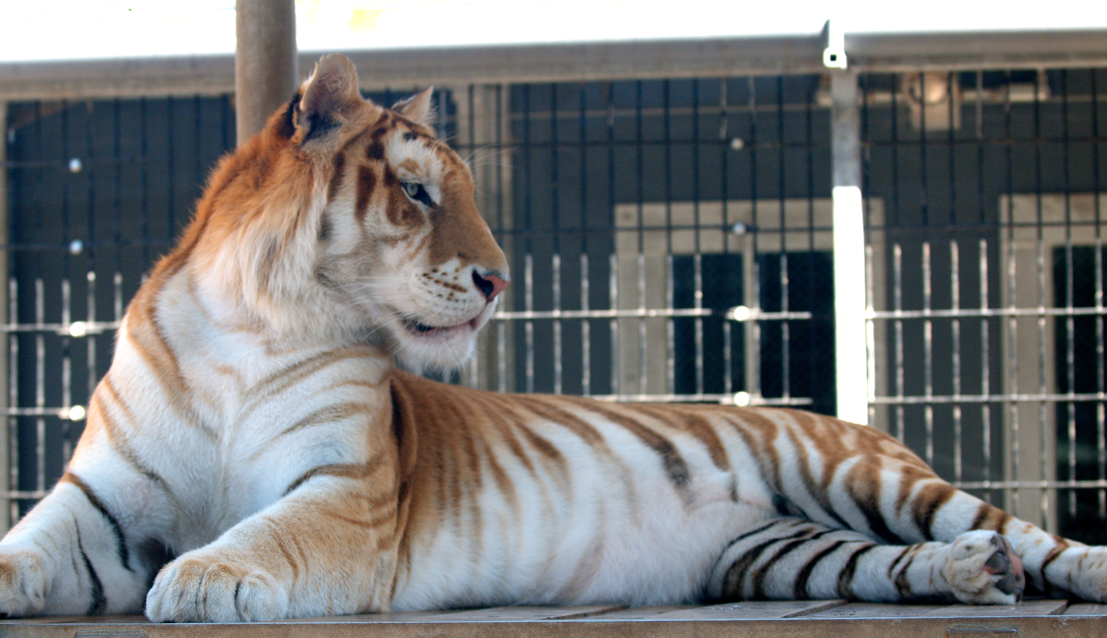 An orange bengal tiger at Cougar Mountain Zoo.